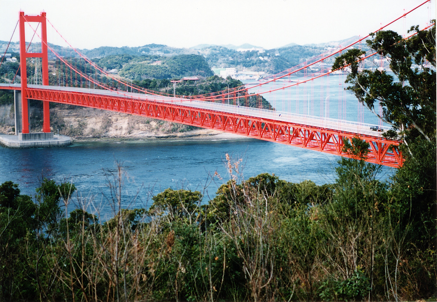 Bridge to Hirado, Nagasaki prefecture, Japan user:Fg2 I took this photograph and contributed it to the public domain.